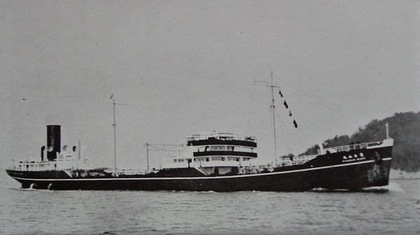 Iino Line, Fujisan Maru